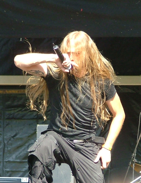 Wolfgang Rothbauer - Mastermind and Singer of the Austrian melodic death metal bands In Slumber and ThirdMoon